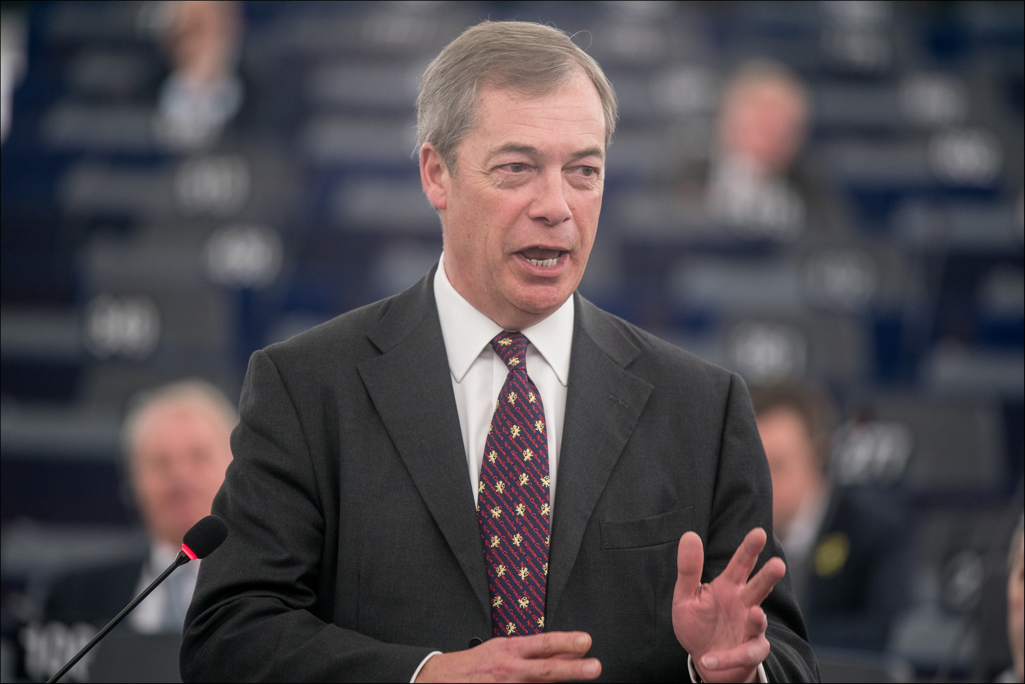 Following the UK parliament's rejection of the Brexit deal in a vote last evening, members of the European Parliament have underlined that the EU will remain united and that citizens’ rights are Europe's priority. Speaking in a debate in Parliament today, Commission Vice-President Frans Timmermans said commitments on the peace process and the border in Ireland or on citizens’ rights cannot be watered down. Parliament's lead member on Brexit @guyverhofstadt called on UK politicians to build a positive majority to break the Brexit deadlock. READ MORE ►► This photo is free to use under Creative Commons license CC-BY-4.0 and must be credited: "CC-BY-4.0: © European Union 20XY – Source: EP". No model release form if applicable. For bigger HR files please contact: webcom-flickr(AT)